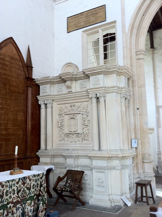 Memorial to the 2nd Duke of York in the Church of St Mary and All Saints, Fotheringhay, Northamptonshire